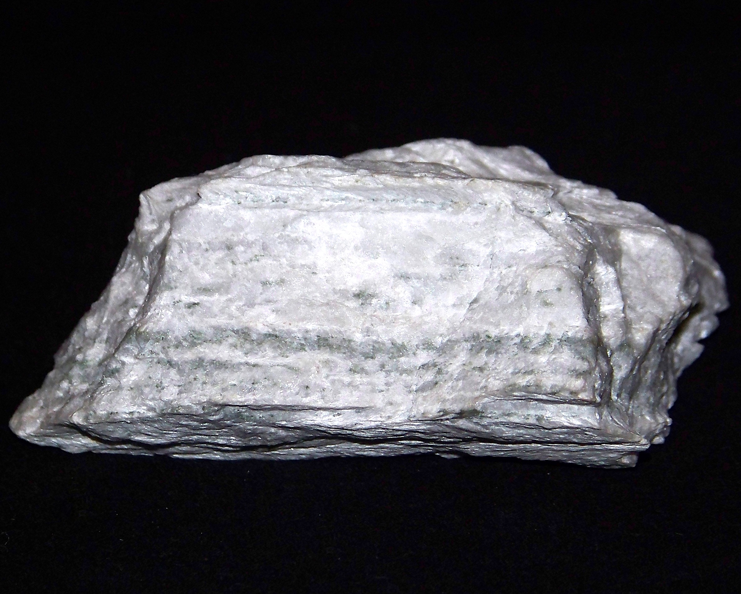 Wollastonite skarn with diopside from quartz mine "Stanisław" in the Izerskie Garby near Szklarska Poręba, Izerskie Mountains, Lower Silesia, Poland.